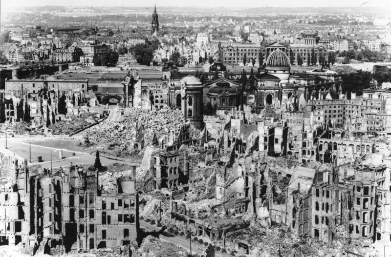 Dresden, Teilansicht des zerstörten Stadtzentrums über die Elbe nach der Neustadt. In der Bildmitte der Neumarkt und die Ruine der Frauenkirche. Information added by Wikimedia users.English Translation "Dresden, partial view of the destroyed city center on the Elbe to the new town. In the center of Neumarkt and the ruins of the Frauenkirche."